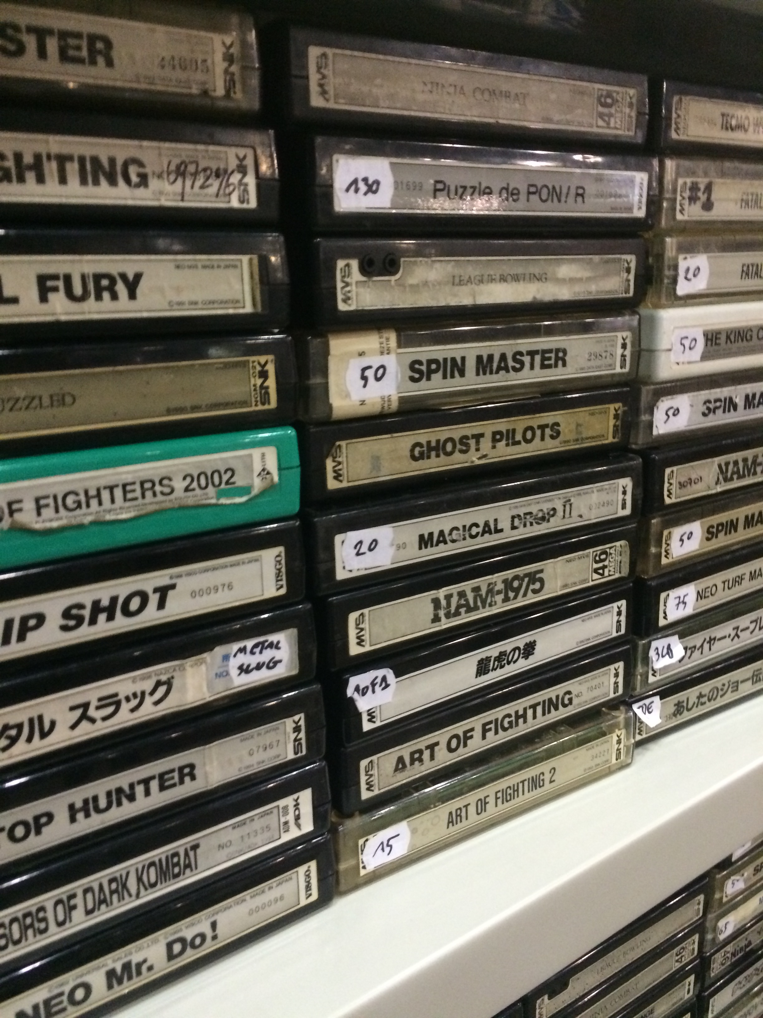 NeoGeo Cartridge